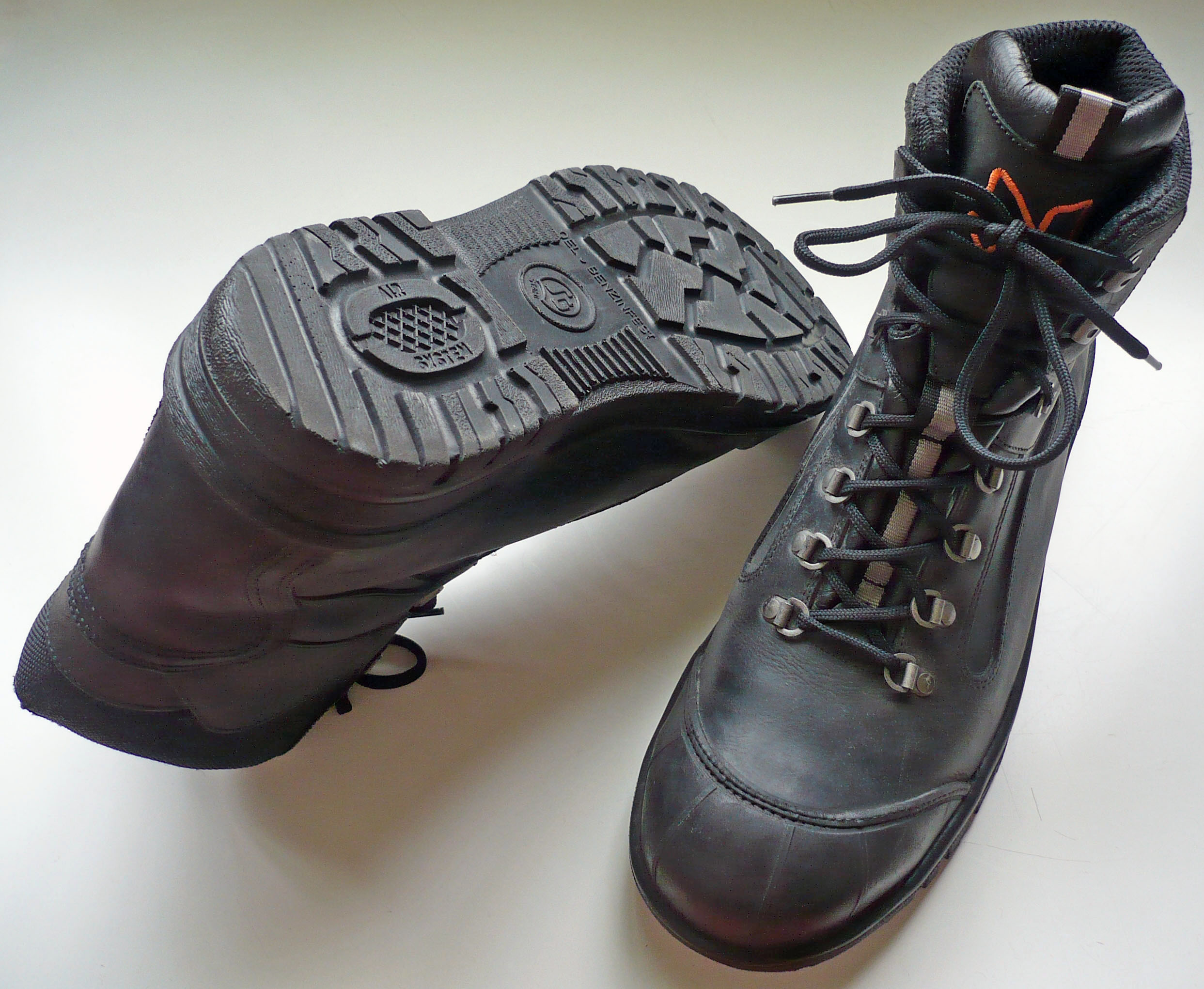 A pair of Class S3 Neskrid Cherokee II safety boots. This safety footwear complies to the European EN ISO 20345:2004 standards.